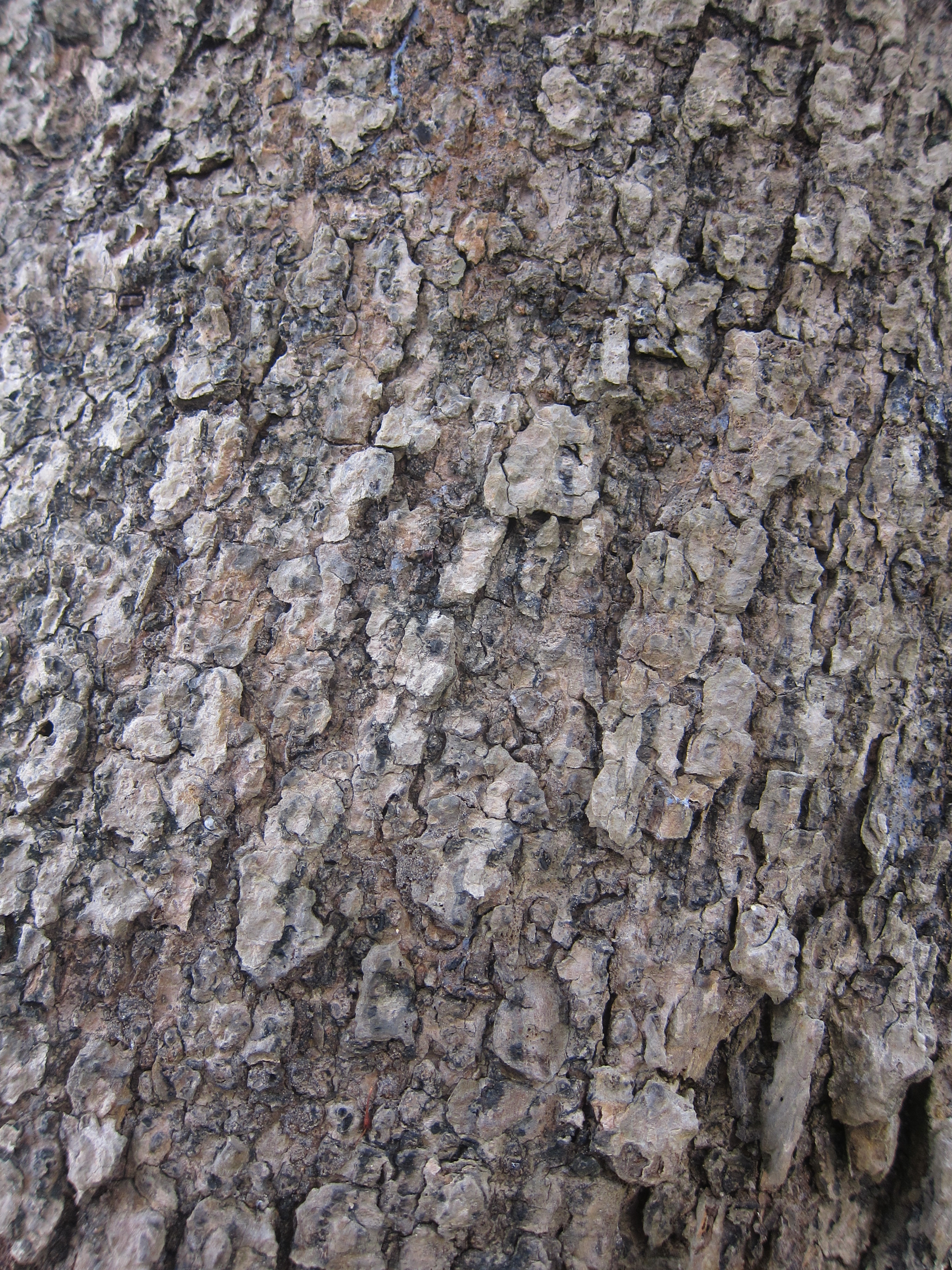 Bark of Nauclea orientalis from an old and valuable tree # S/26 in Stanley, Hong Kong